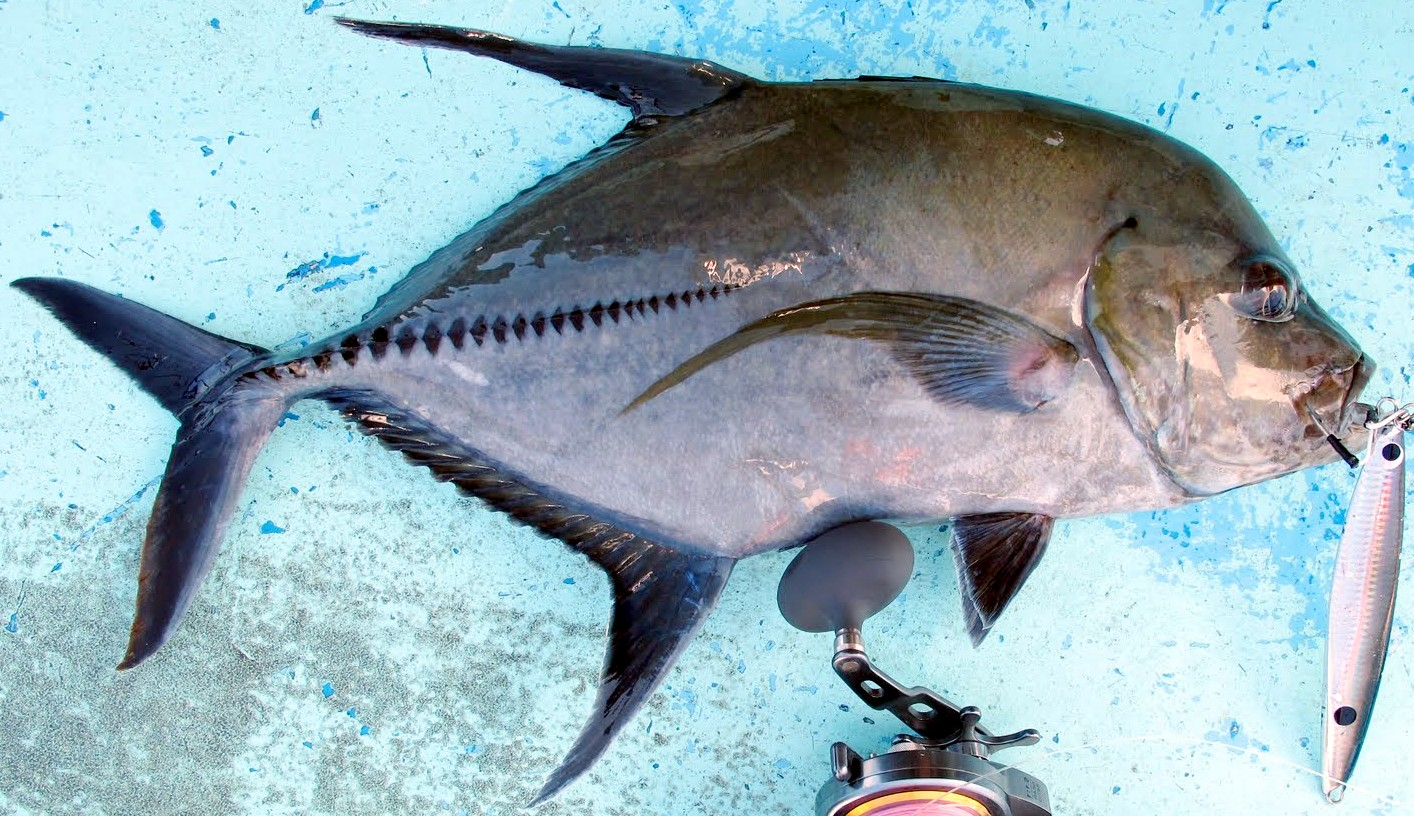 Caranx lugubris from Cape Coast, Ghana